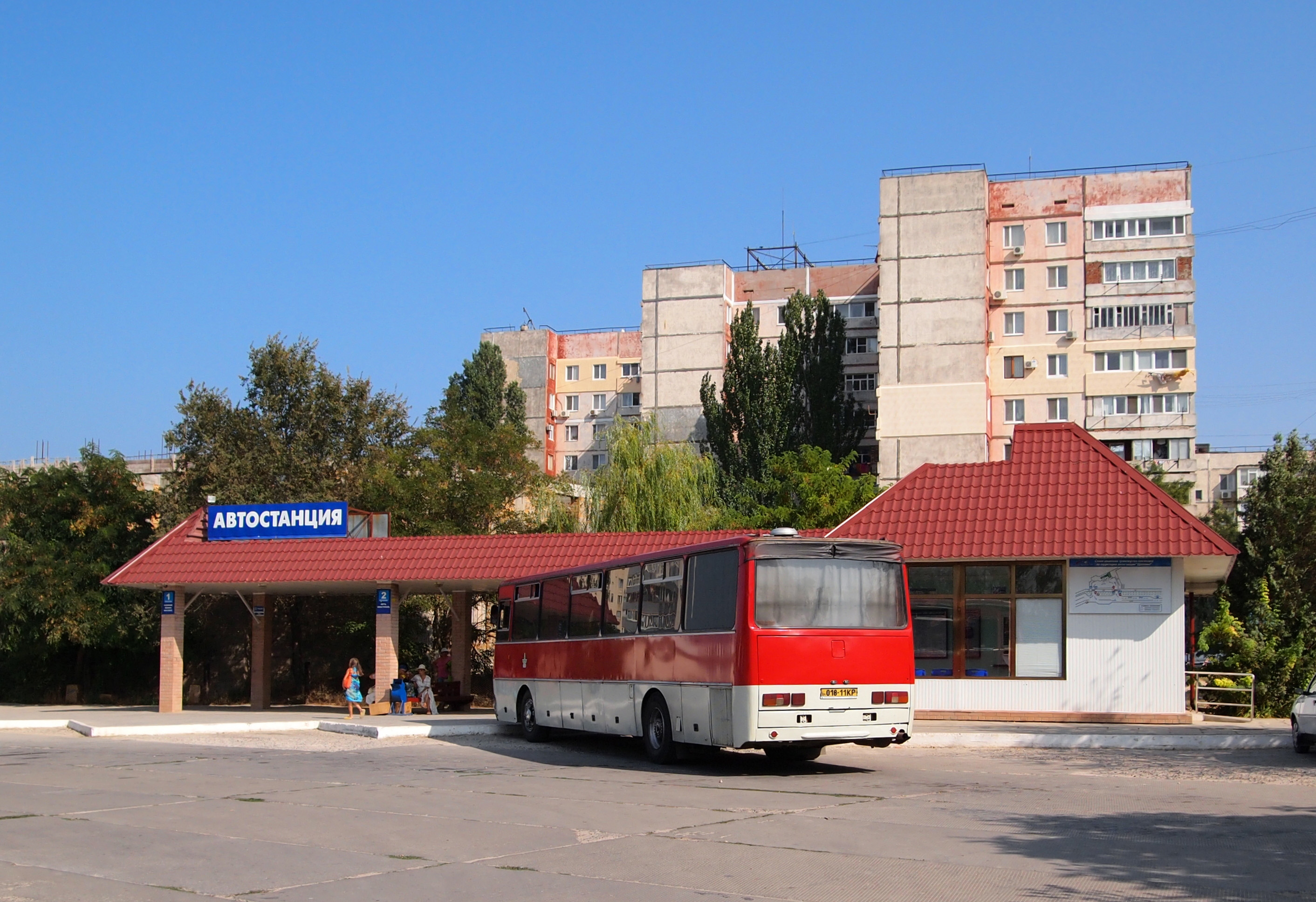 Bus station of Shcholkine. This photograph was taken with an Olympus E-PL1.